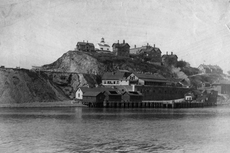 View of Alcatraz Island in 1895, showing the lighthouse and prison buildings.